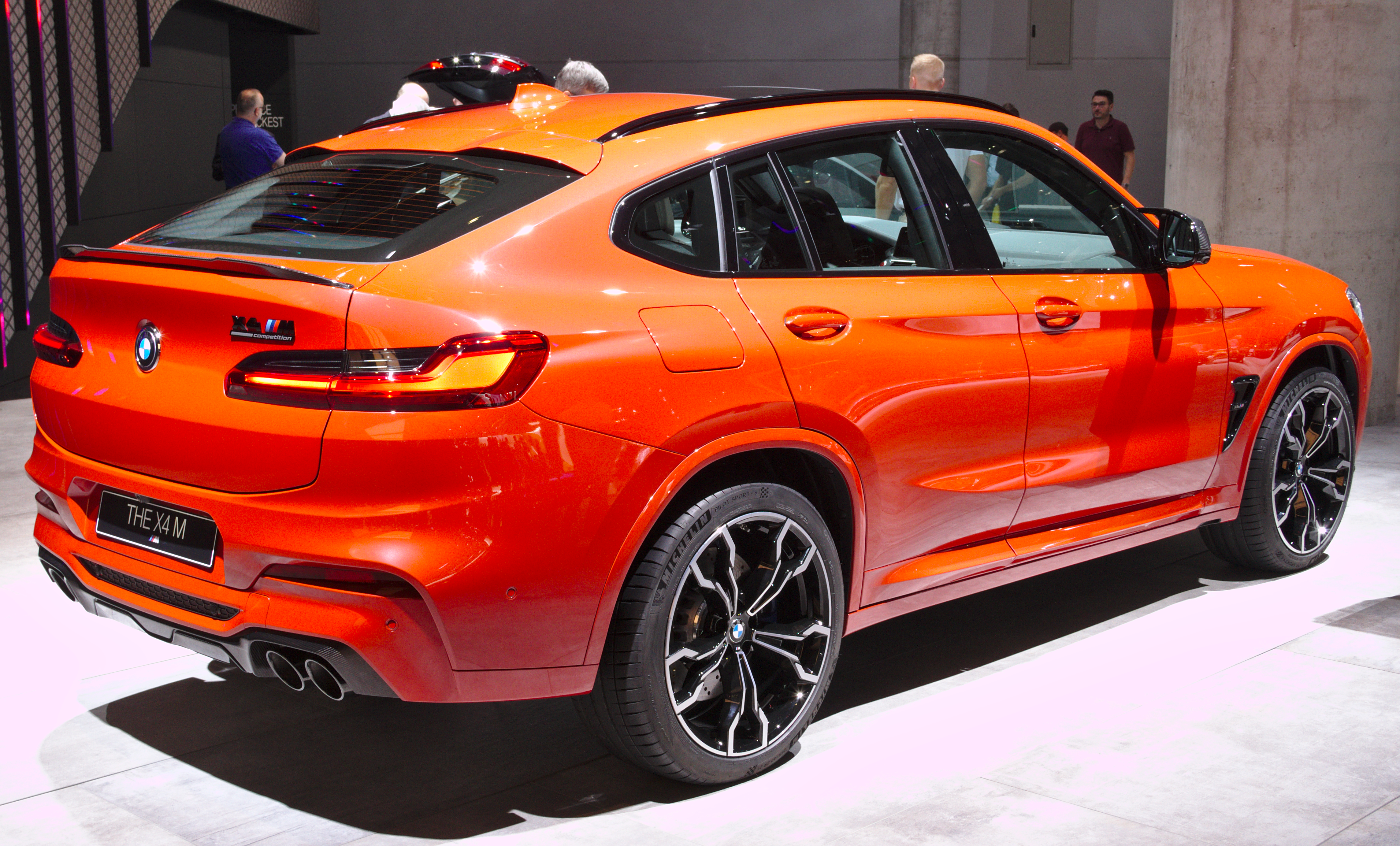 BMW_X4_M_(G02) at IAA 2019